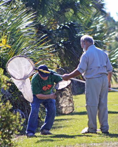 Catch To Tag Monarch Butterflies By Joody Moates